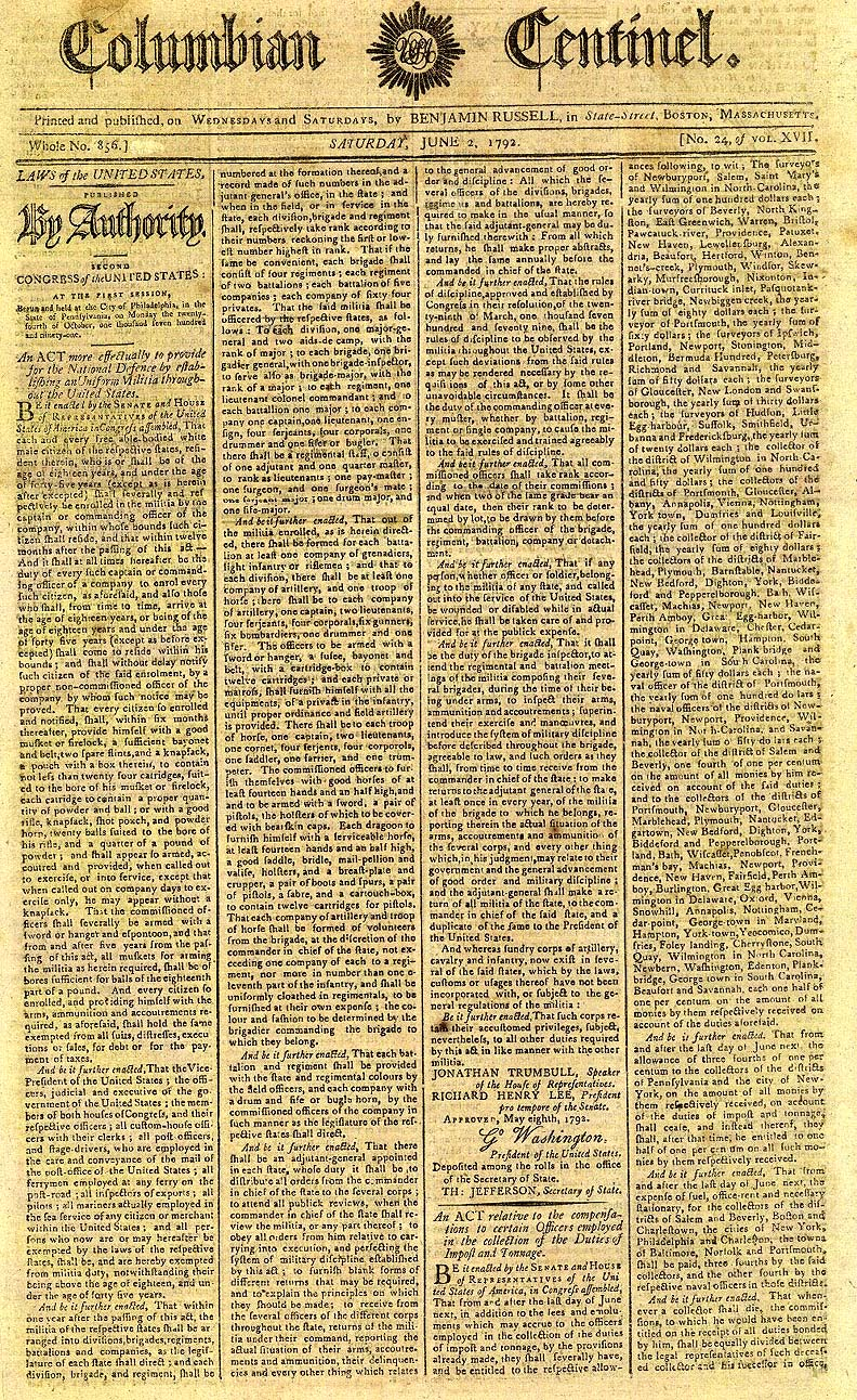 Front page of the newspaper "The Columbian Centinel" announcing the The First National Conscription Act in the United States, June 2nd 1792.